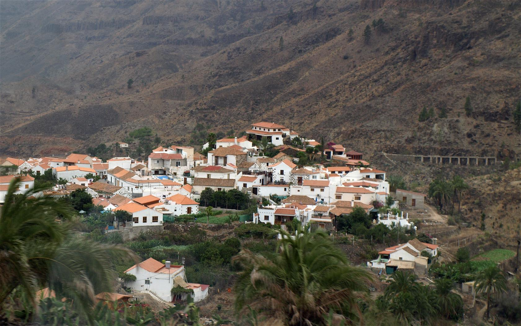 Fataga (Las Palmas de Gran Canaria), seen from the N-W. The barranco de Fataga runs North-South behind the village. The structure showing 10 pillars on the right of the photo are a part of the canal de Fataga.